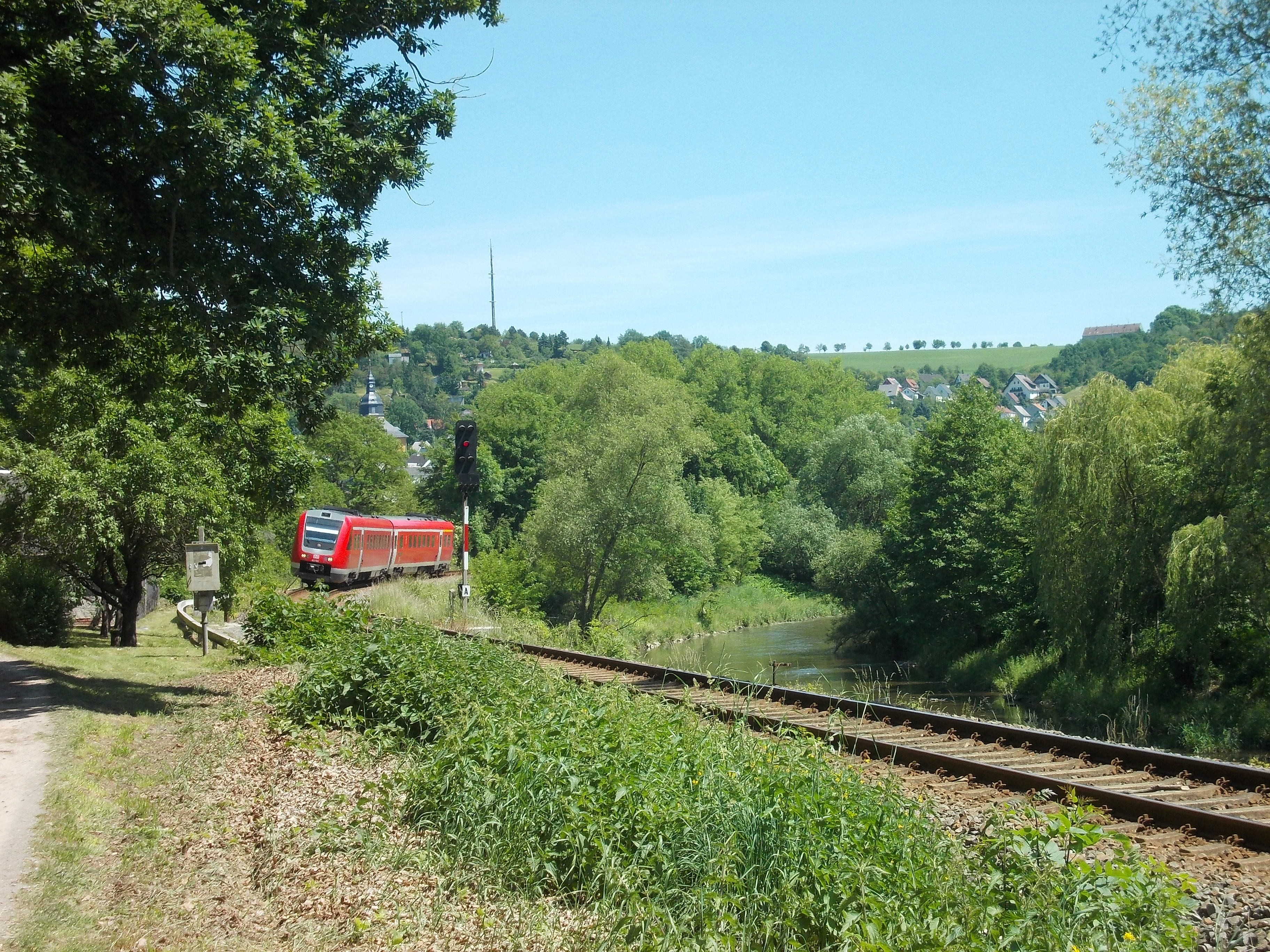 Elster valley railway near Berga (Greiz district, Thuringia)